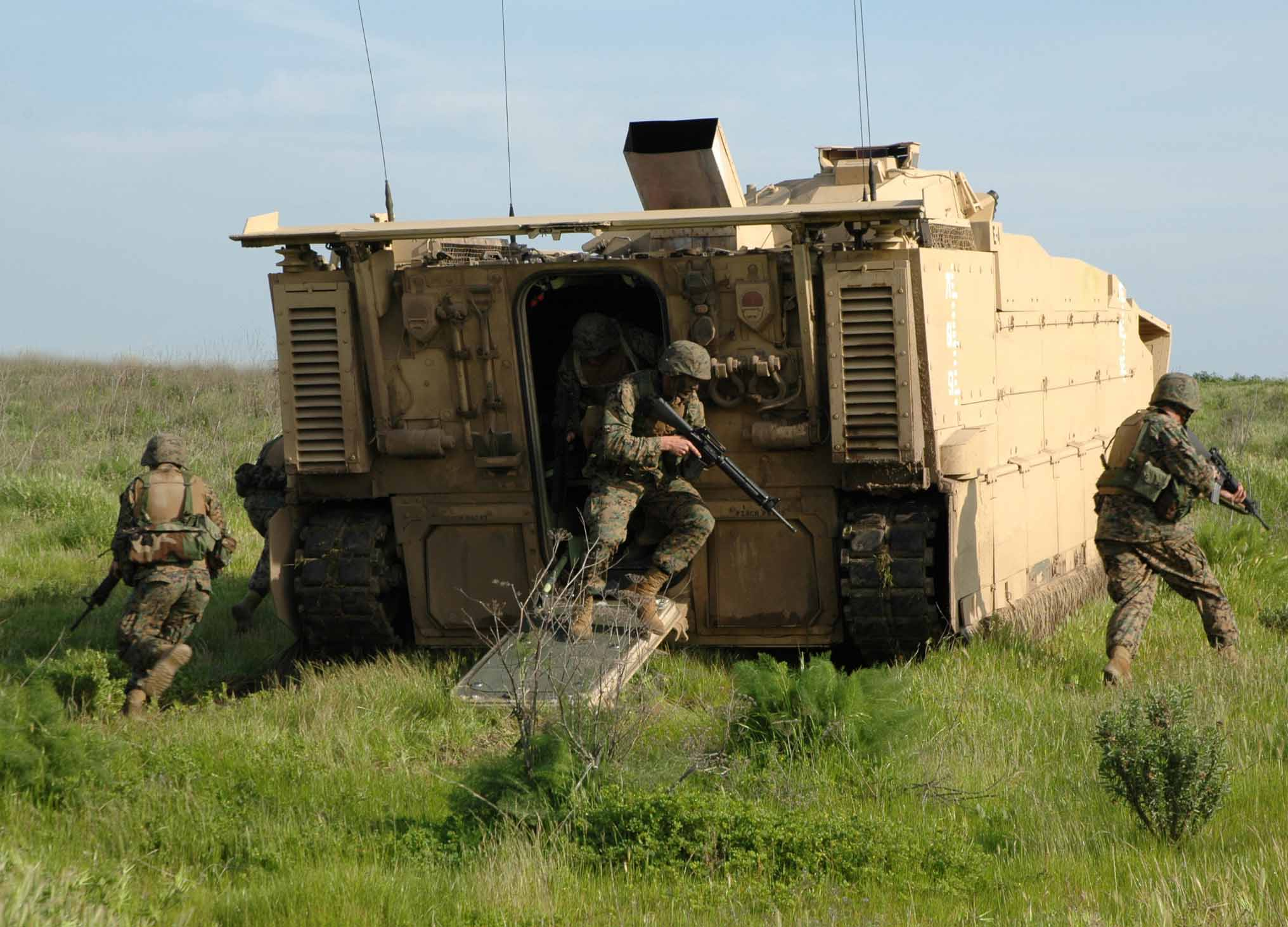 United States Marines disembarking from an Expeditionary Fighting Vehicle.